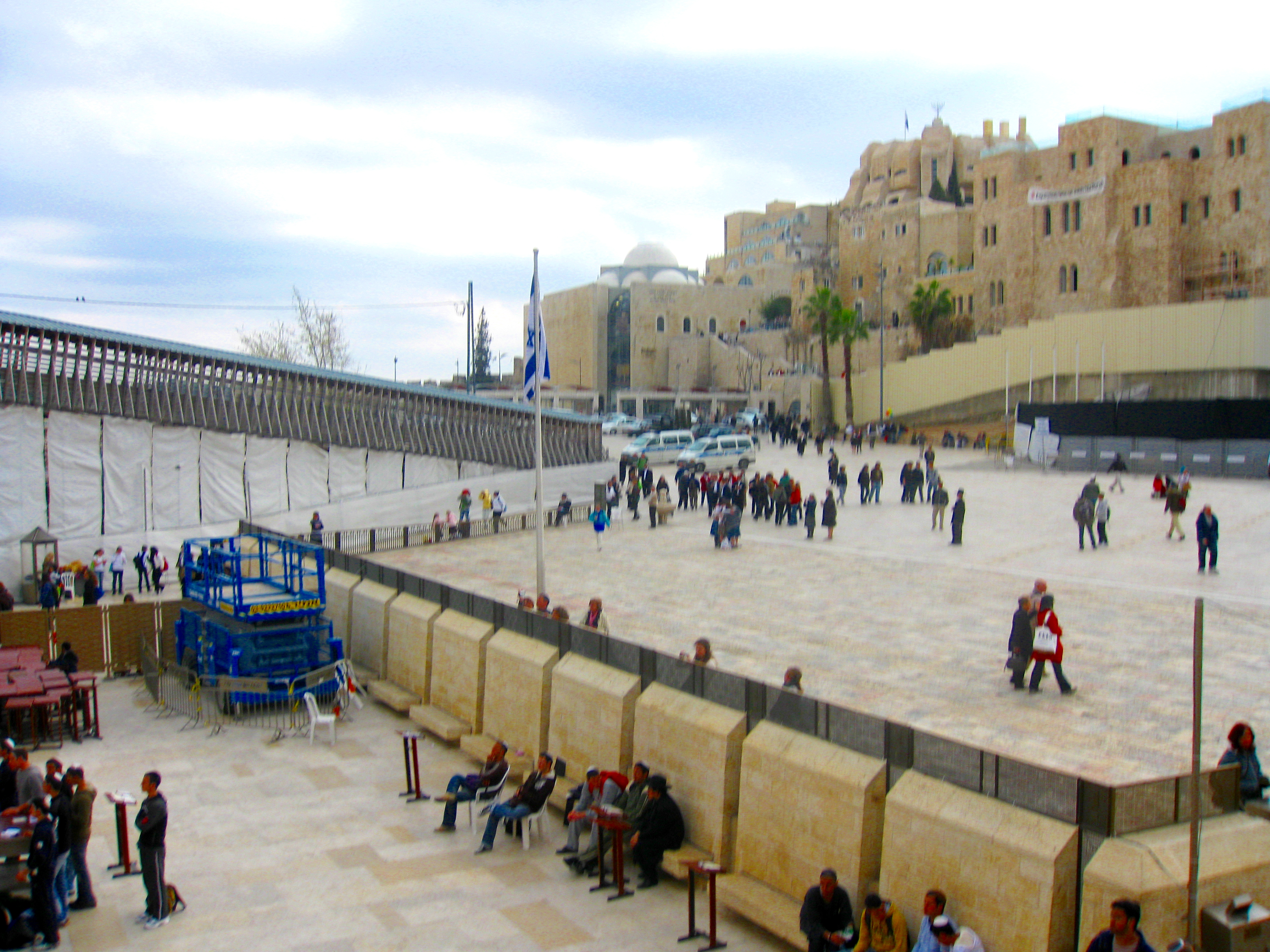 View from the Western Wall towards the Jewish Quarter